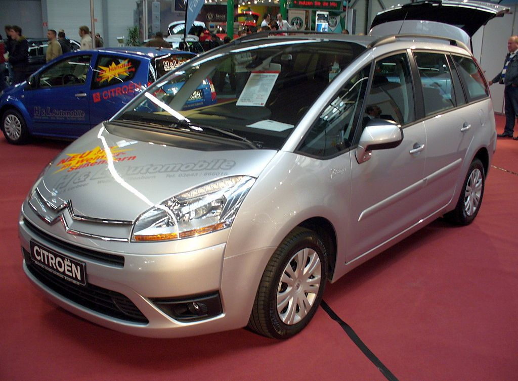 Citroën C4 Grand Picasso